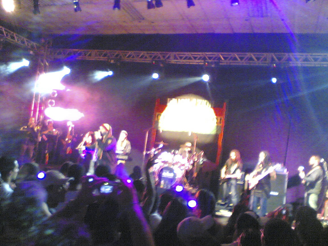 Reggae group Christafari.